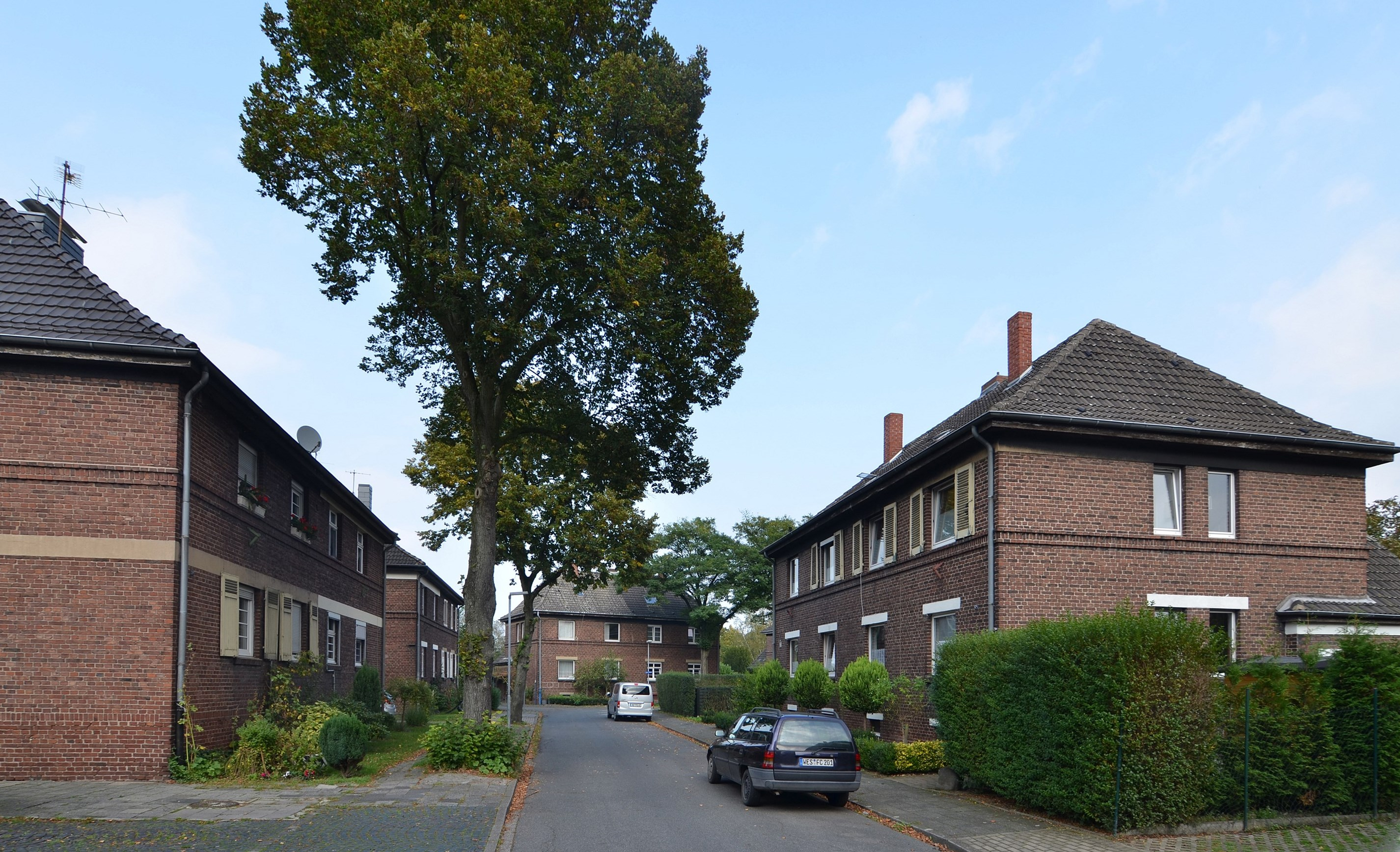 Neukirchen-Vluyn (North Rhine-Westphalia, Germany) – working-class estates of the Niederberg Coal Mine – Old Colony This image shows a heritage building in Germany, located in the North Rhine-Westphalian city Neukirchen-Vluyn (no. 73/74). This photograph was taken with a Nikon D7000